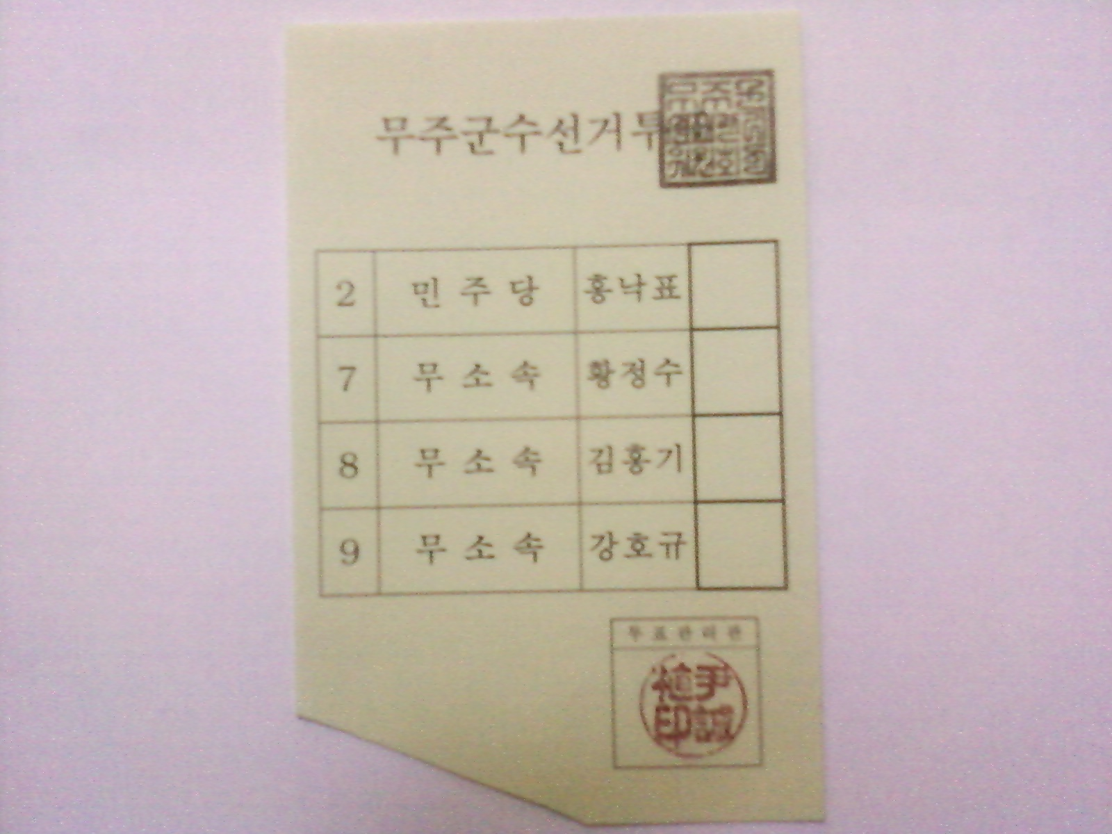 Korean 5th local election ballot paper - Muju-gun, Jeollabuk-do (Gunsu)